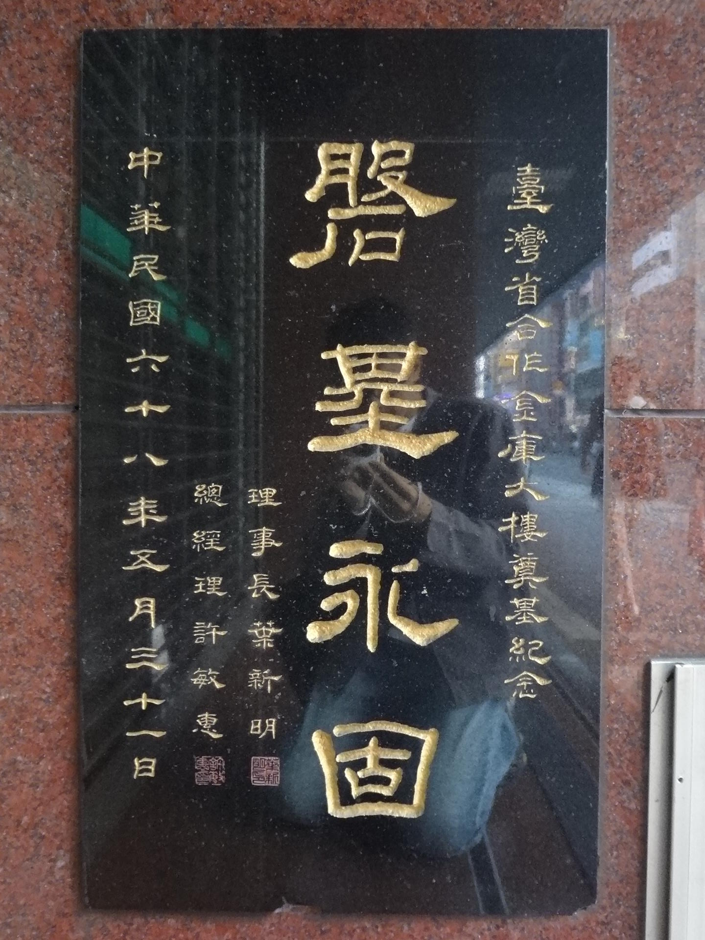 Taiwan Provincial Cooperative Treasury Building foundation stone. May 31th, 1979.